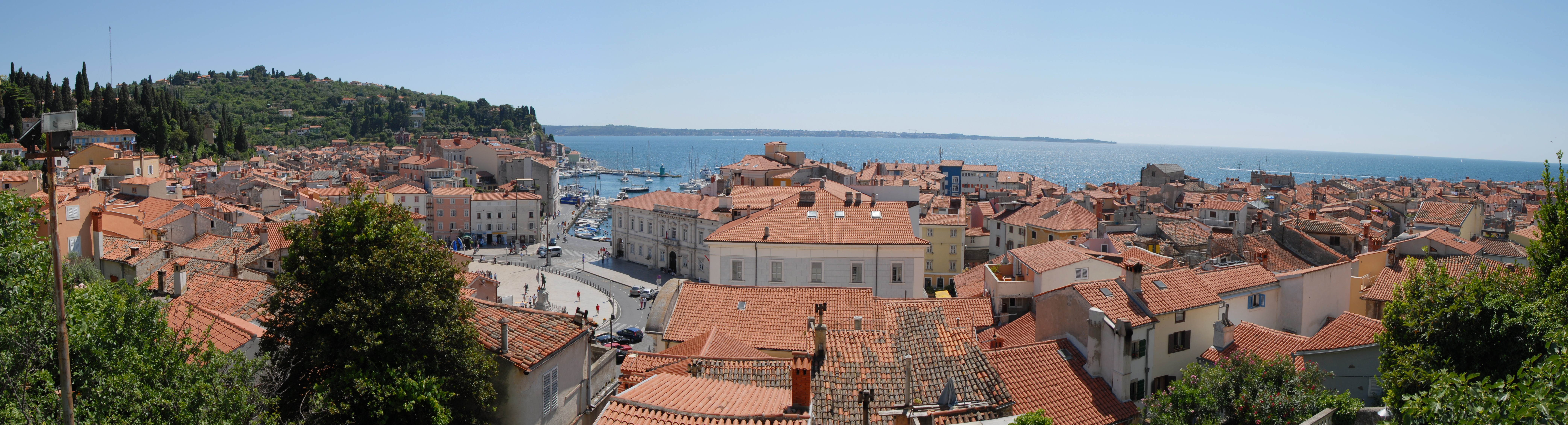 Panorama of Piran